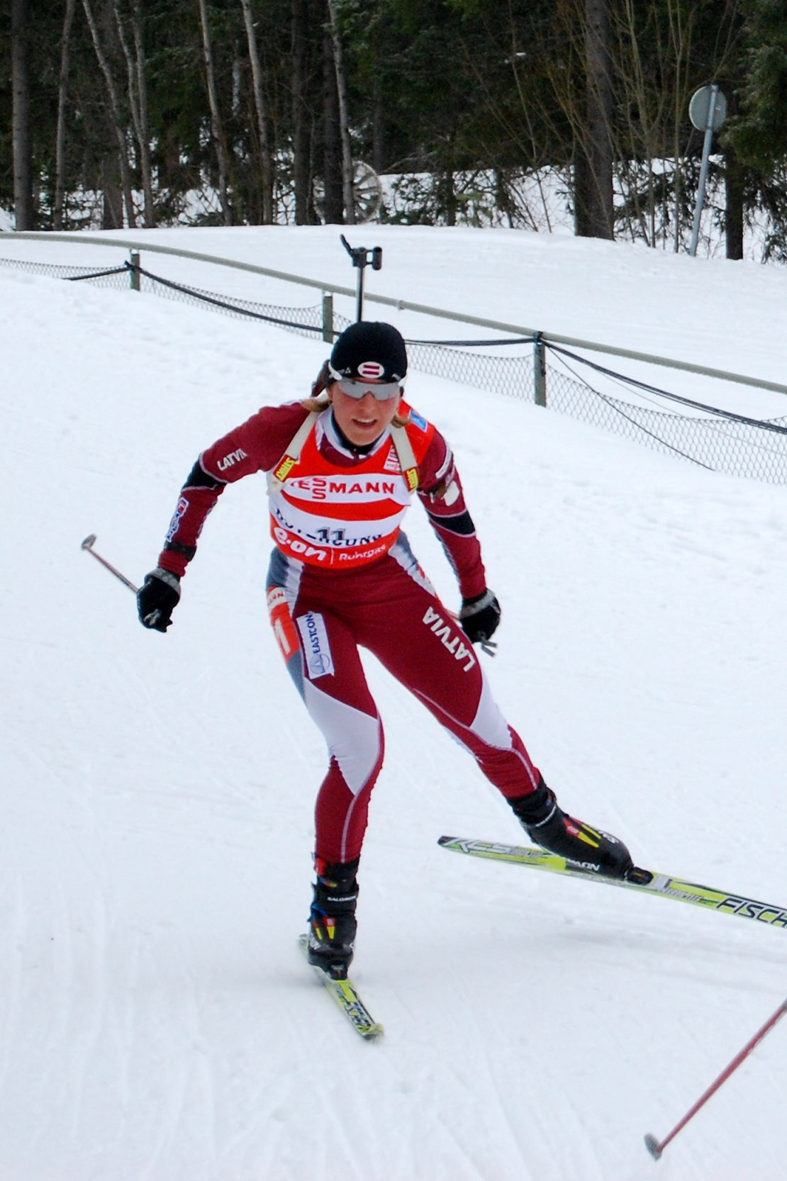 Latvian biathlete Madara Liduma during the World Championships in Östersund 2008.